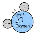 dipole H2O molecule